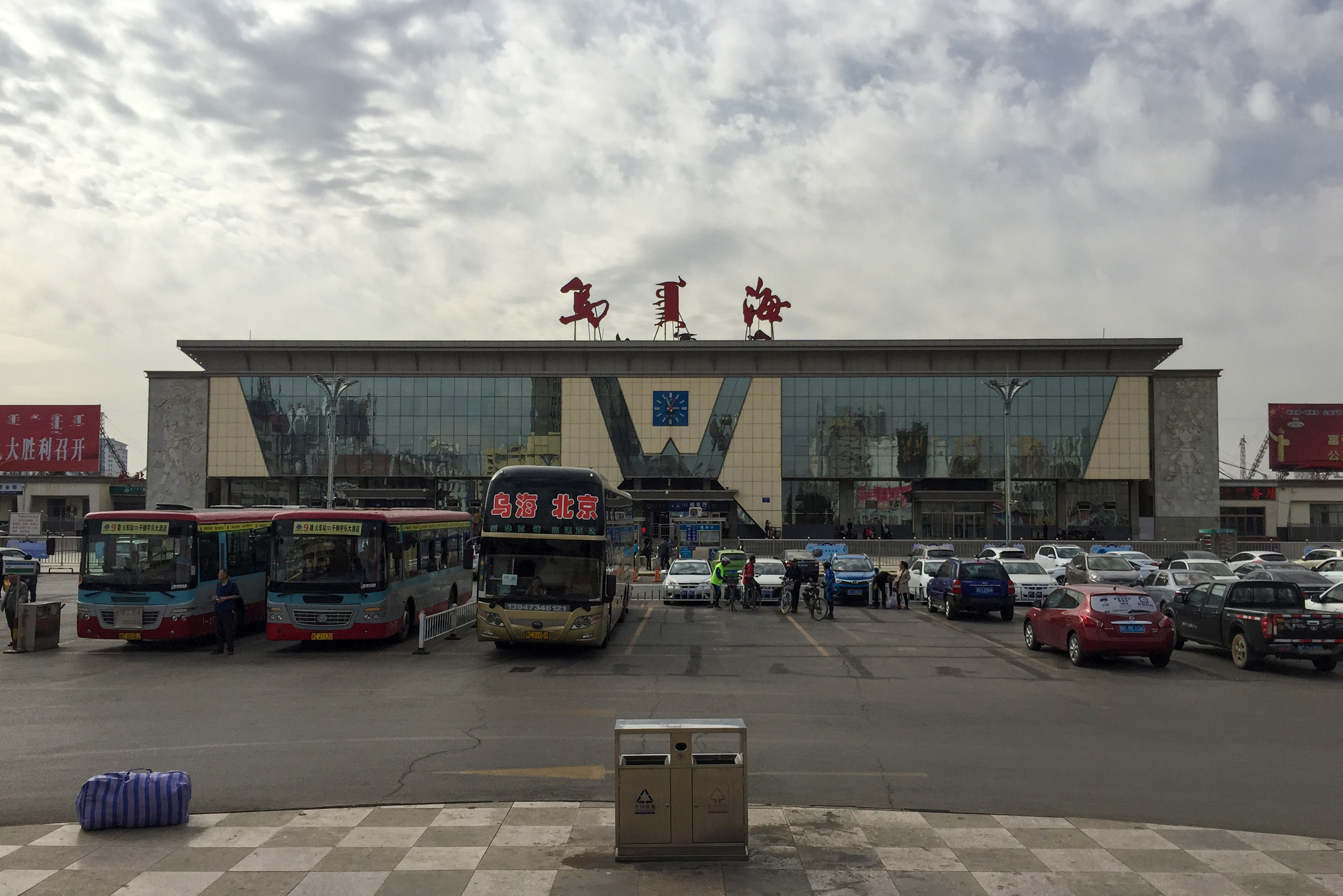 The station square serves as a bus depot. Wuhai doesn't really mean "black sea" here; Instead, it's a "synthesized" place name like Wuhan and Puhuangyu. Wuhai is the combination of Wuda (willow) and Haibowan (lion bay), while Wuhan = Wuchang + Hankou + Hanyang; Puhuangyu = Puzhuang + Huangtukeng + Yushucun.